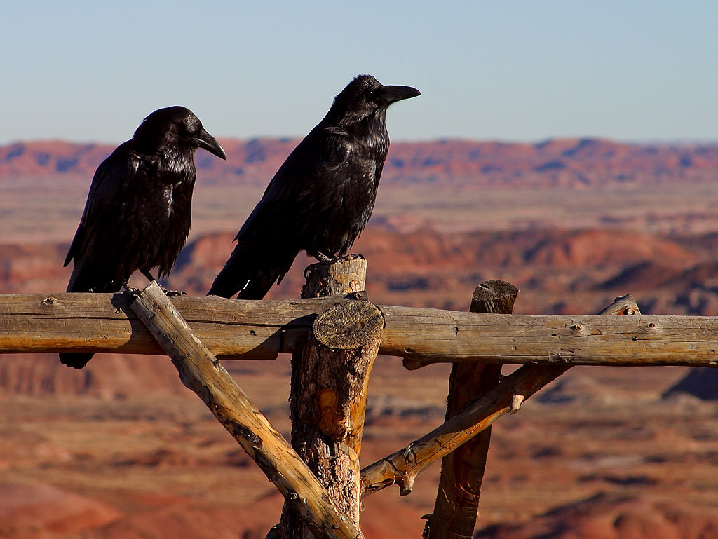 Couple of common ravens (corvus corax) in Arizona.